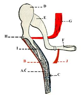 this figure allows to see the correct insertion of the tensor tempani muscle. AA’ ( two fibrous collagenic layers); B épidermis; C mucous membrane; D head of malleus; E incus; F stapes; G tensor tympani; H lateral process of malleus; I Manubrium of malleus; J stapes muscle.